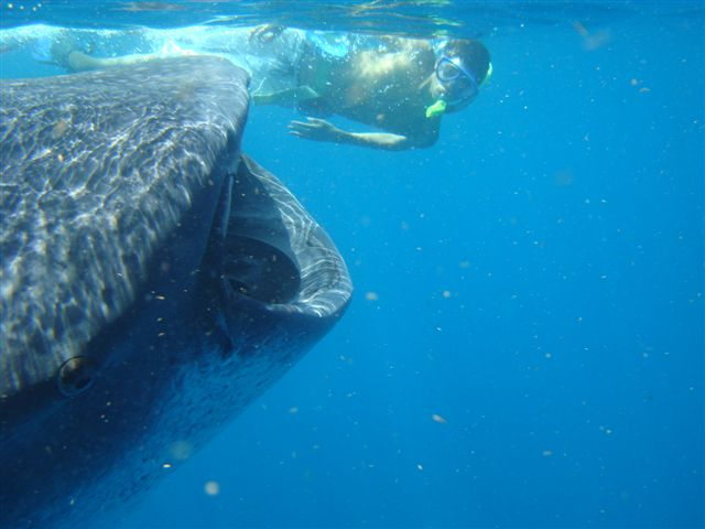 Snorkeling whit whale shark at the northeast of Cancun